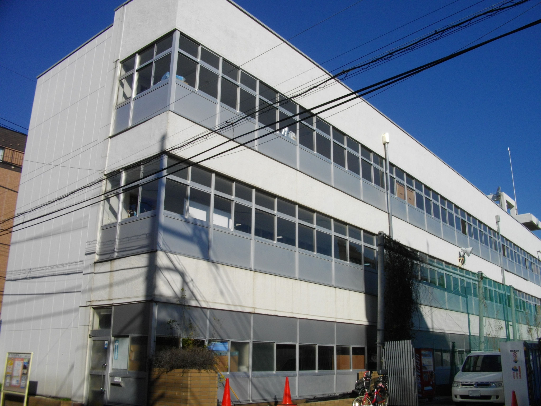 Tokyo Korean 6th Elementary School